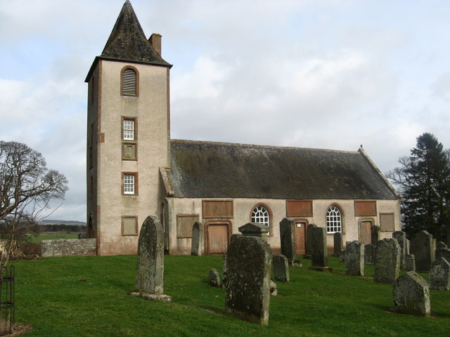 Polwarth Parish Kirk. The kirk at historic Polwarth is a Borders jewel sitting atop the braes. It is suggested there has been a church here since 900 AD. The church was consecrated by David de Bereham, Archbishop of St. Andrews in 1242 and dedicated to St. Kentigern (Mungo) It is one of the most interesting churches I have visited and there are inscriptions, in Latin, everywhere you look; the inscriptions tell of the church's history. A crypt containing the remains of local aristocrats, the Humes of Marchmont, is housed in the east end of the building. Looking at Mike Richardson's image 985495 will show the image better than I can tell.